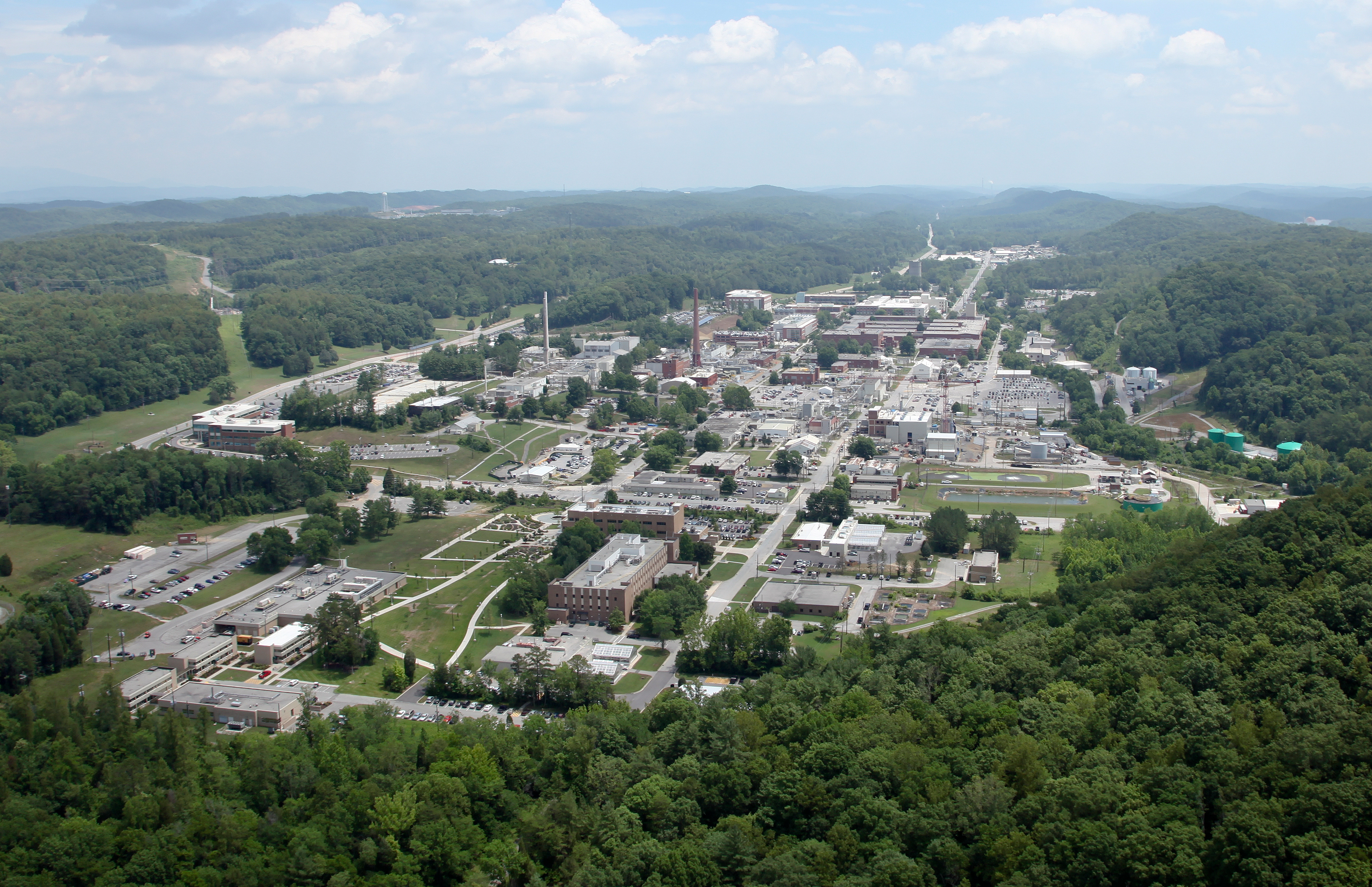 An aerial view of the Oak Ridge National Laboratory (taken at unknown date)